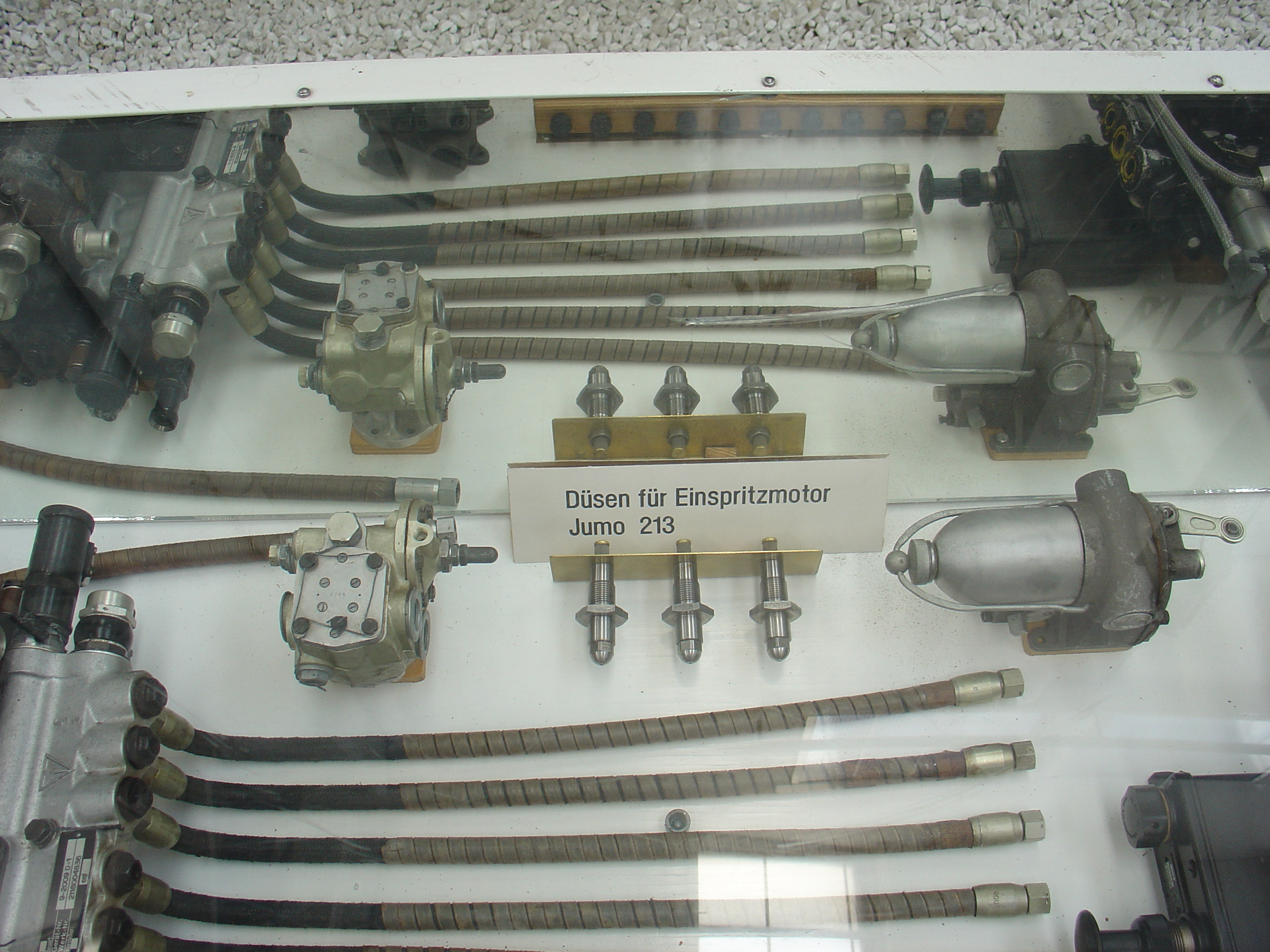 Jumo 213 fuel injector on display at Technikmuseum Speyer, Germany